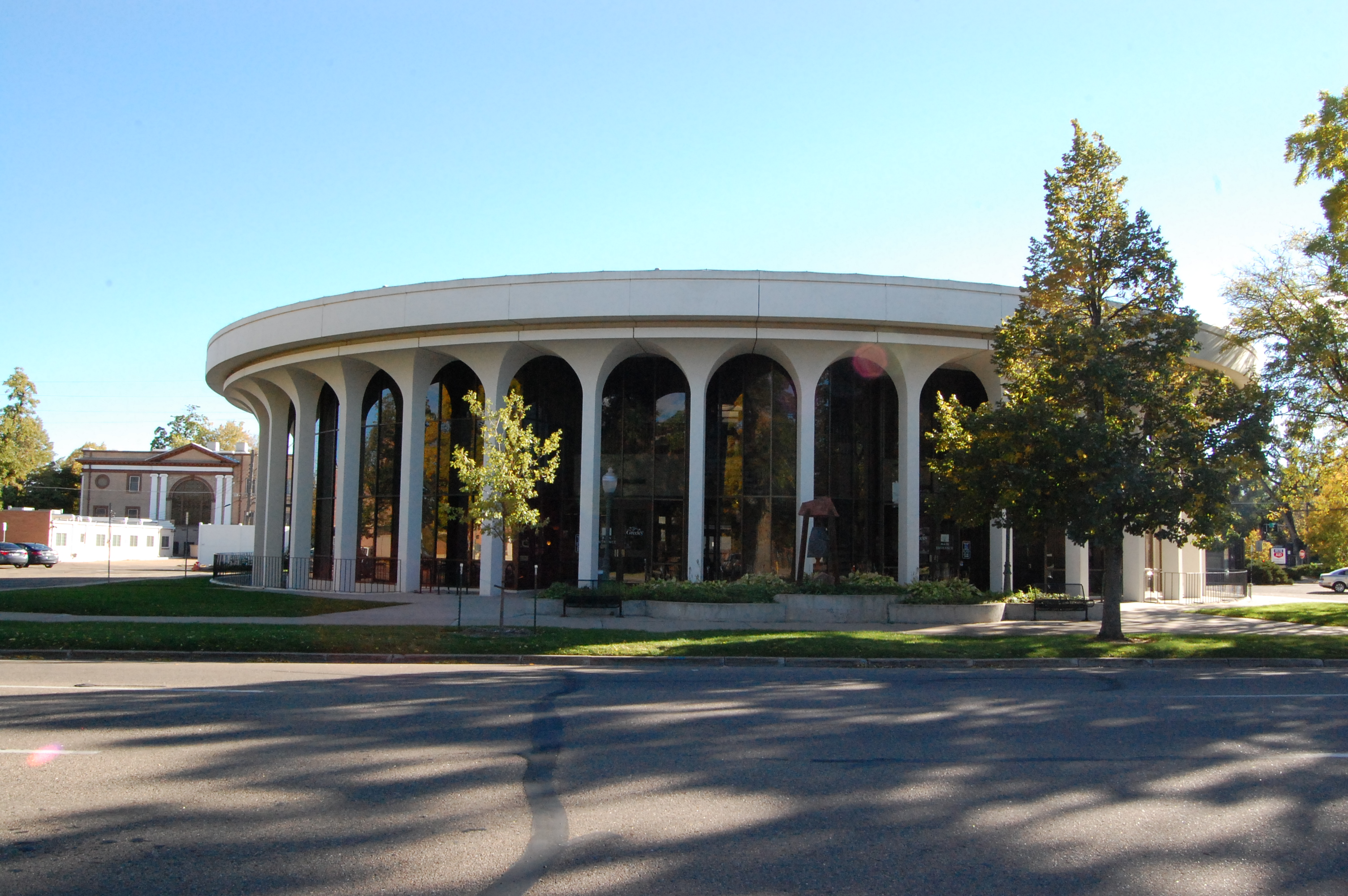 Greeley's City Hall, located at 1000 10th Street, Greeley, CO 80631